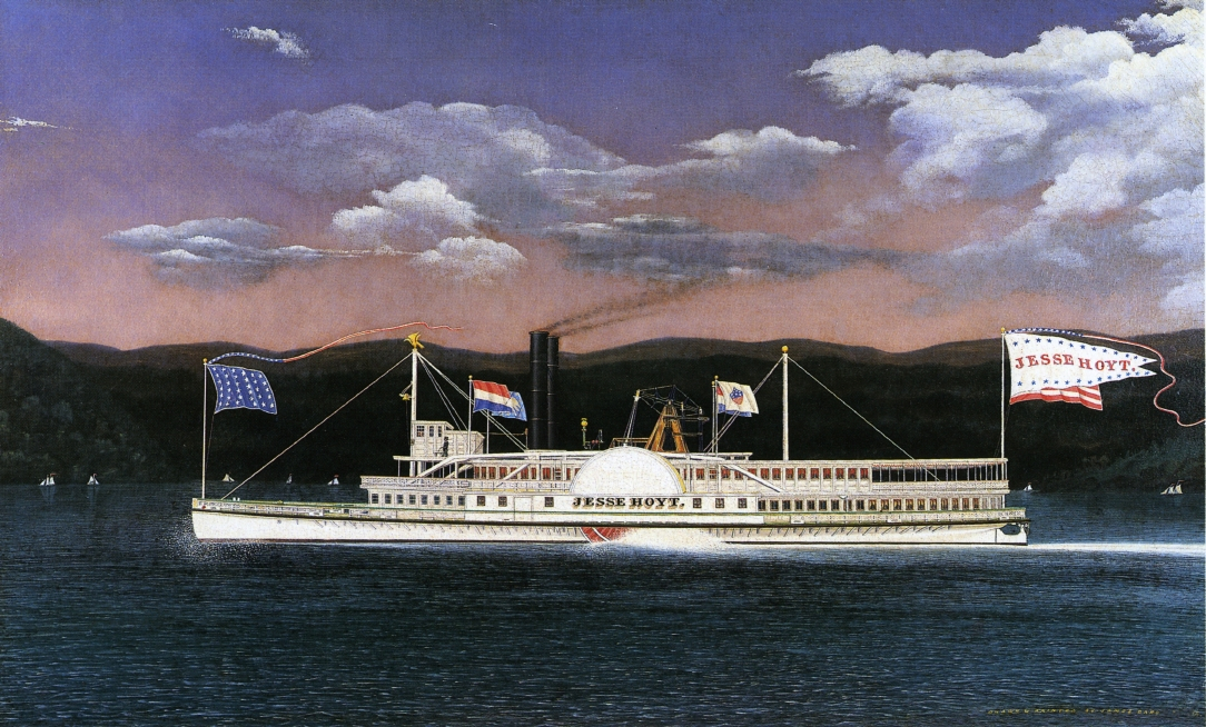 Jesse Hoyt, steamboat built 1862, ran on the Hudson River, and on the New York to Philadelphia route. Oil on canvas by James Bard.